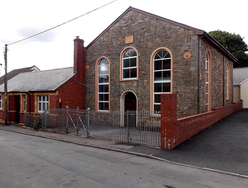 Bethel Methodist Church, Beaufort. Viewed across Wesley Place. The inscription on the tablet above the central window is BETHEL ENGLISH CHAPEL 1851. The "English" part of the name denoted that services were held in English not Welsh.